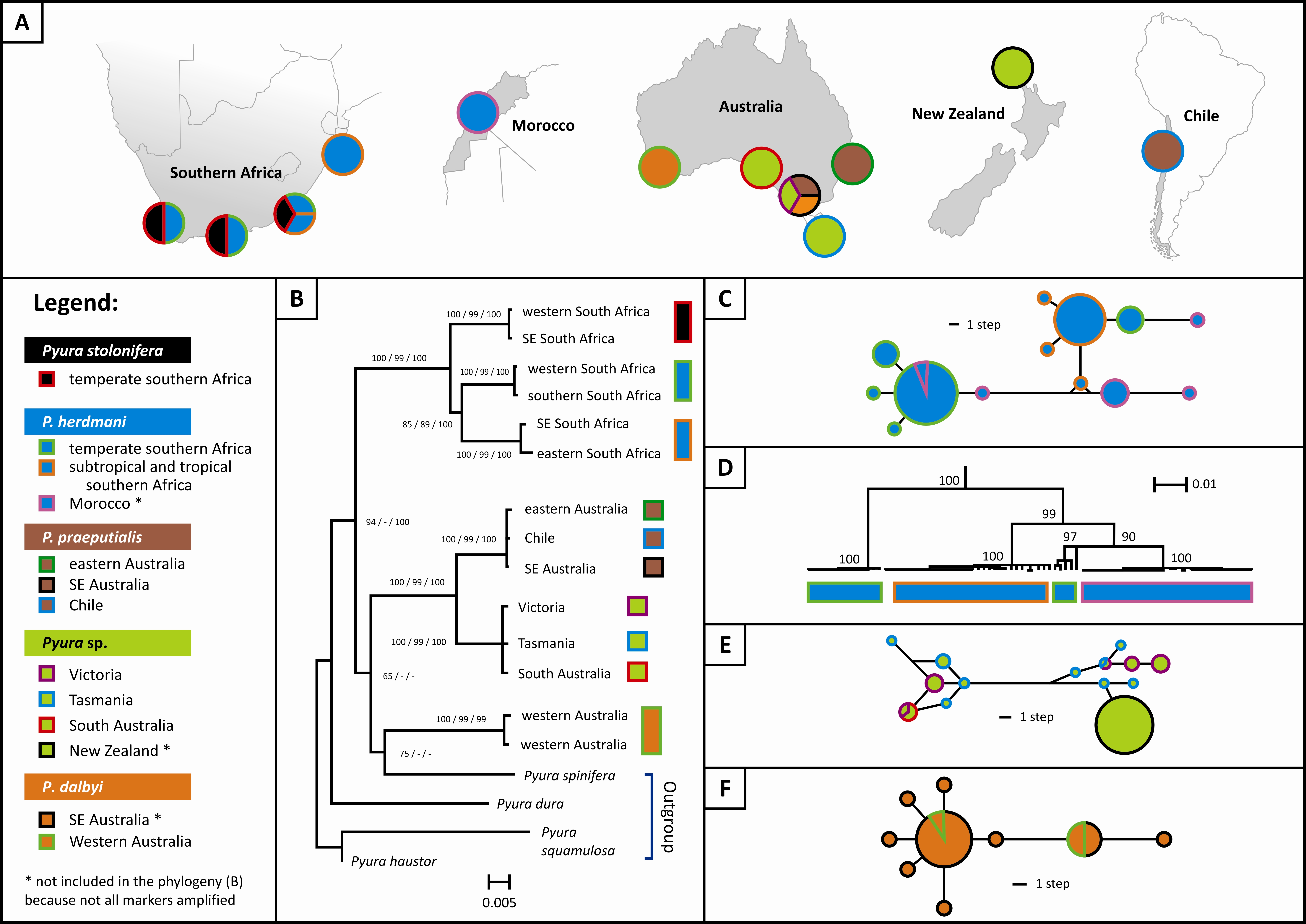 A figure showing the distribution and phylogeny of the Pyura stolonifera species complex